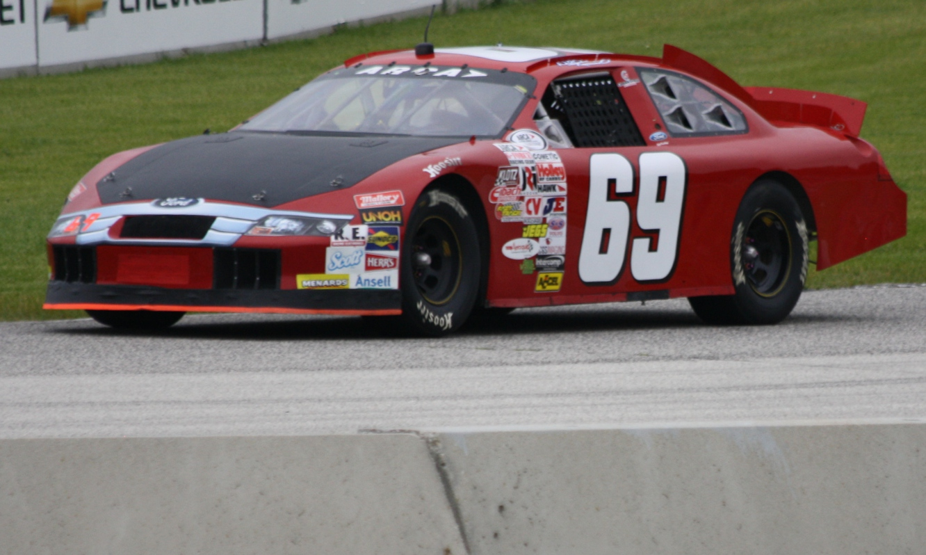 Will Kimmel #69 ARCA stock car at Road America in 2013.